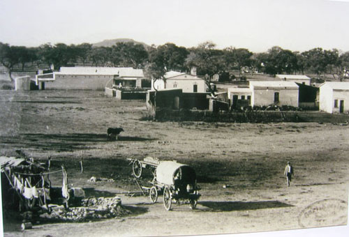 view of Rehoboth, Namibia in 1908